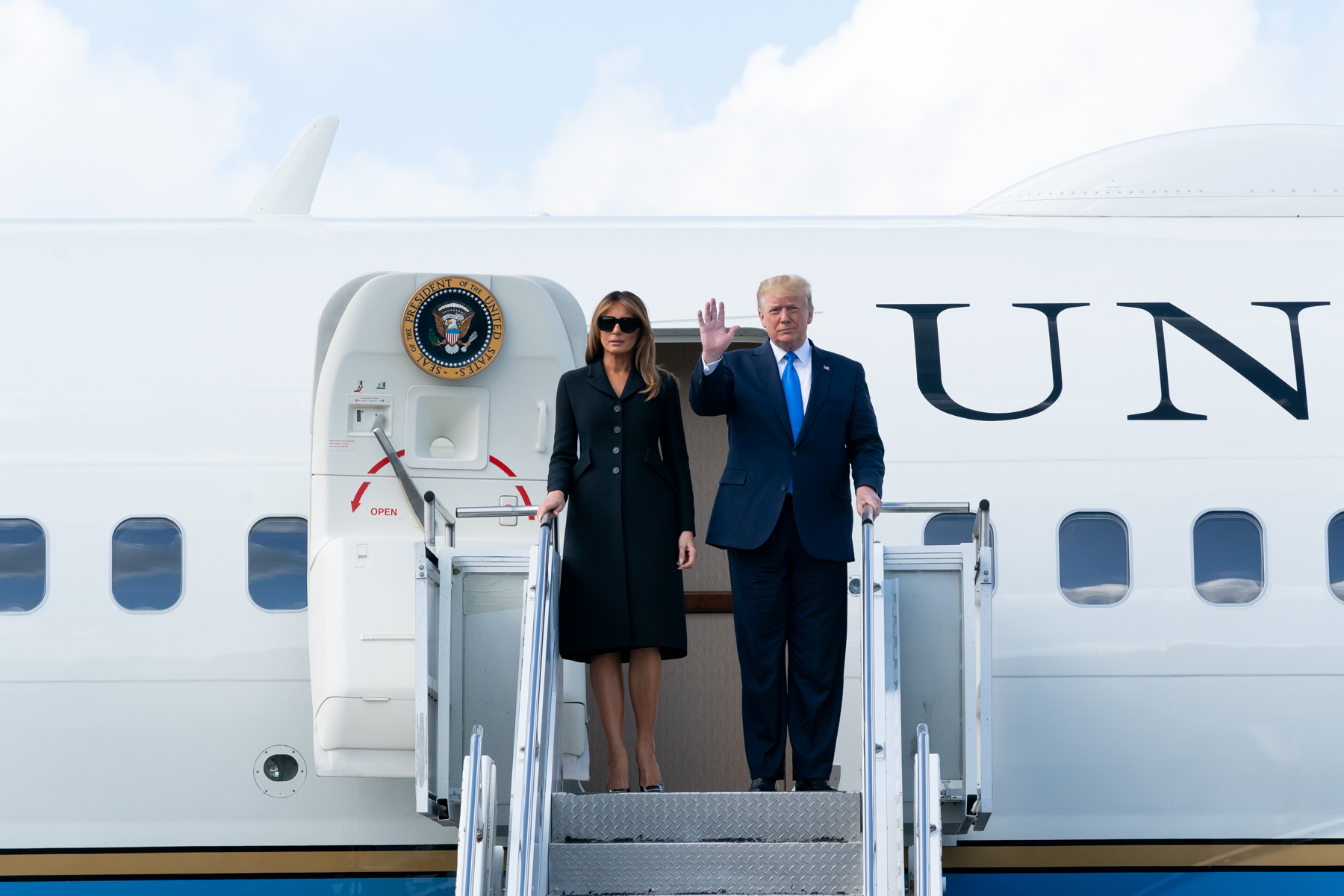 President Donald J. Trump, joined by First Lady Melania Trump, waves as they disembark Air Force One at Carpiquet Airport in Caen, France Thursday, June 6, 2019, before boarding Marine One en route to Normandy, France. (Official White House Photo by Andrea Hanks)